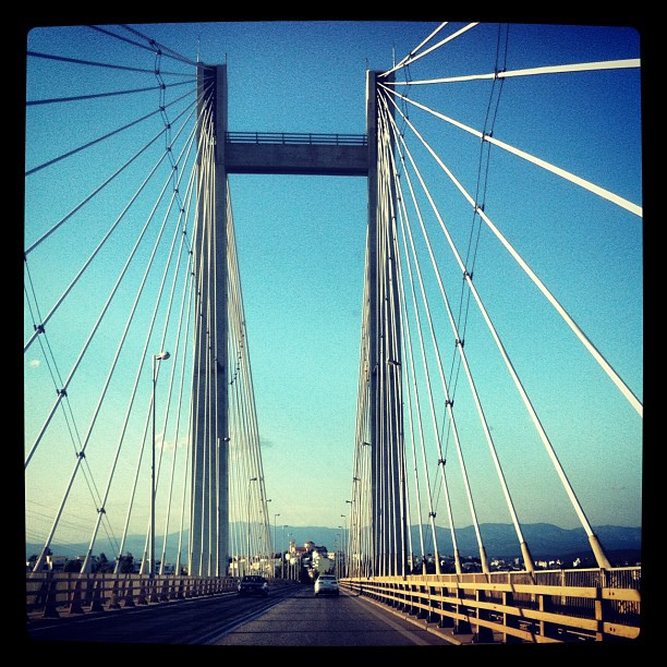 Chalkida new bridge, Greece